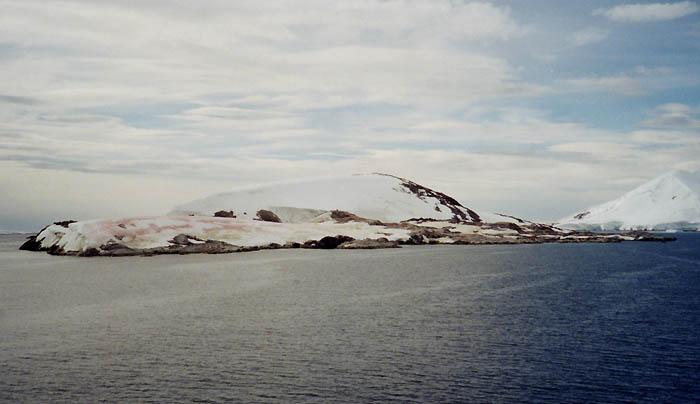 Photo of Petermann Island overall